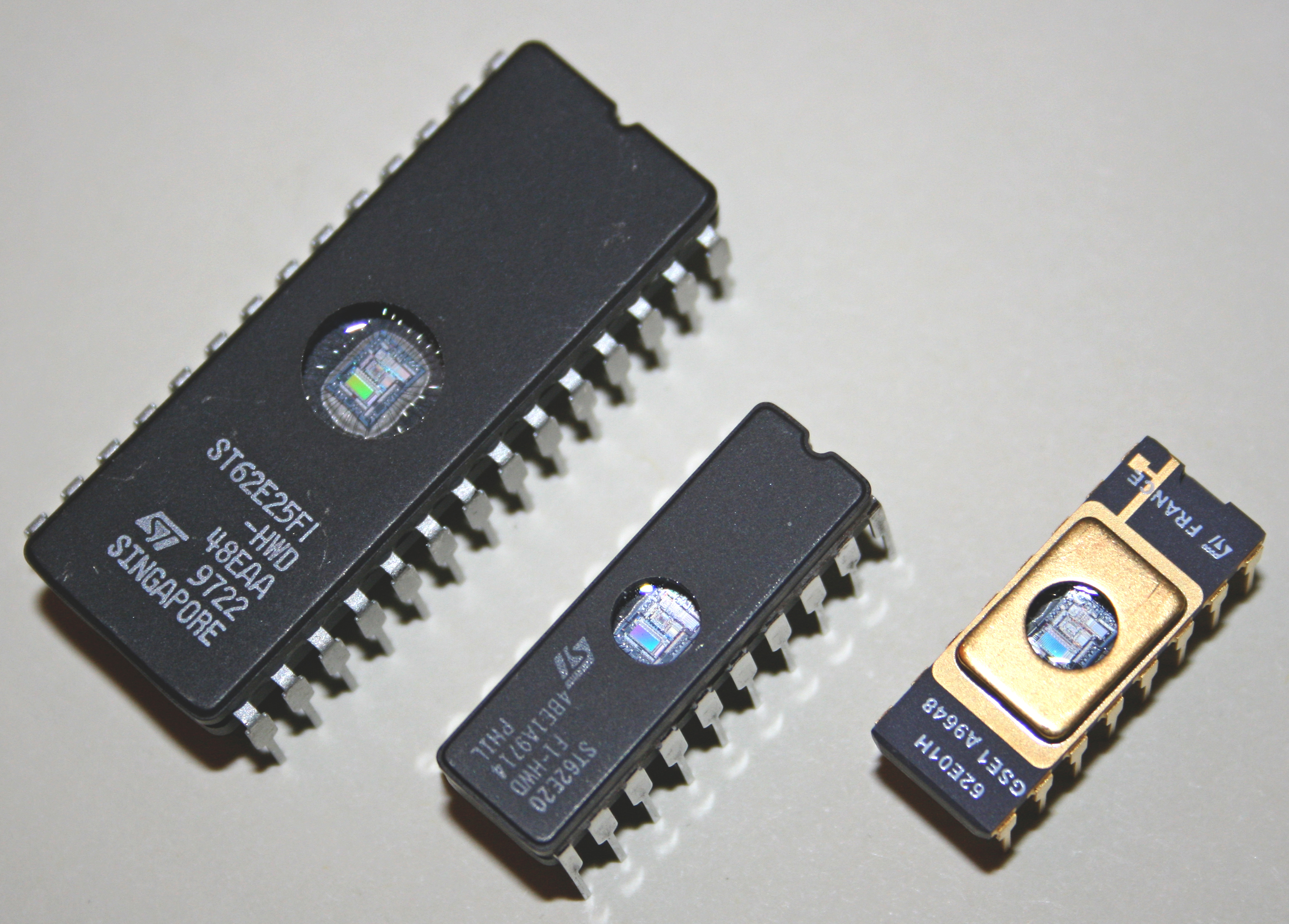 Die size: 4.2 x 3.2 mm The ST62T10, T15, T20 and T25 devices are low cost members of the 8-bit HCMOS ST62xx family of microcontrollers, which is targeted at low to medium complexity applications. All ST62xx devices are based on a building block approach: a common core is surrounded by a number of on-chip peripherals. The ST62E20 and ST62E25 device are erasable EPROM version of the ST62T20 and ST62E25 devices, which may be used to emulate the T10, T15, T20 and T25 PROM devices. These compact low-cost devices feature a Timer comprising an 8-bit counter and a 7-bit programmable prescaler, an 8-bit A/D Converter with 8/16 analog inputs and a Digital Watchdog timer, making them well suited for a wide range of automotive, appliance and industrial applications.